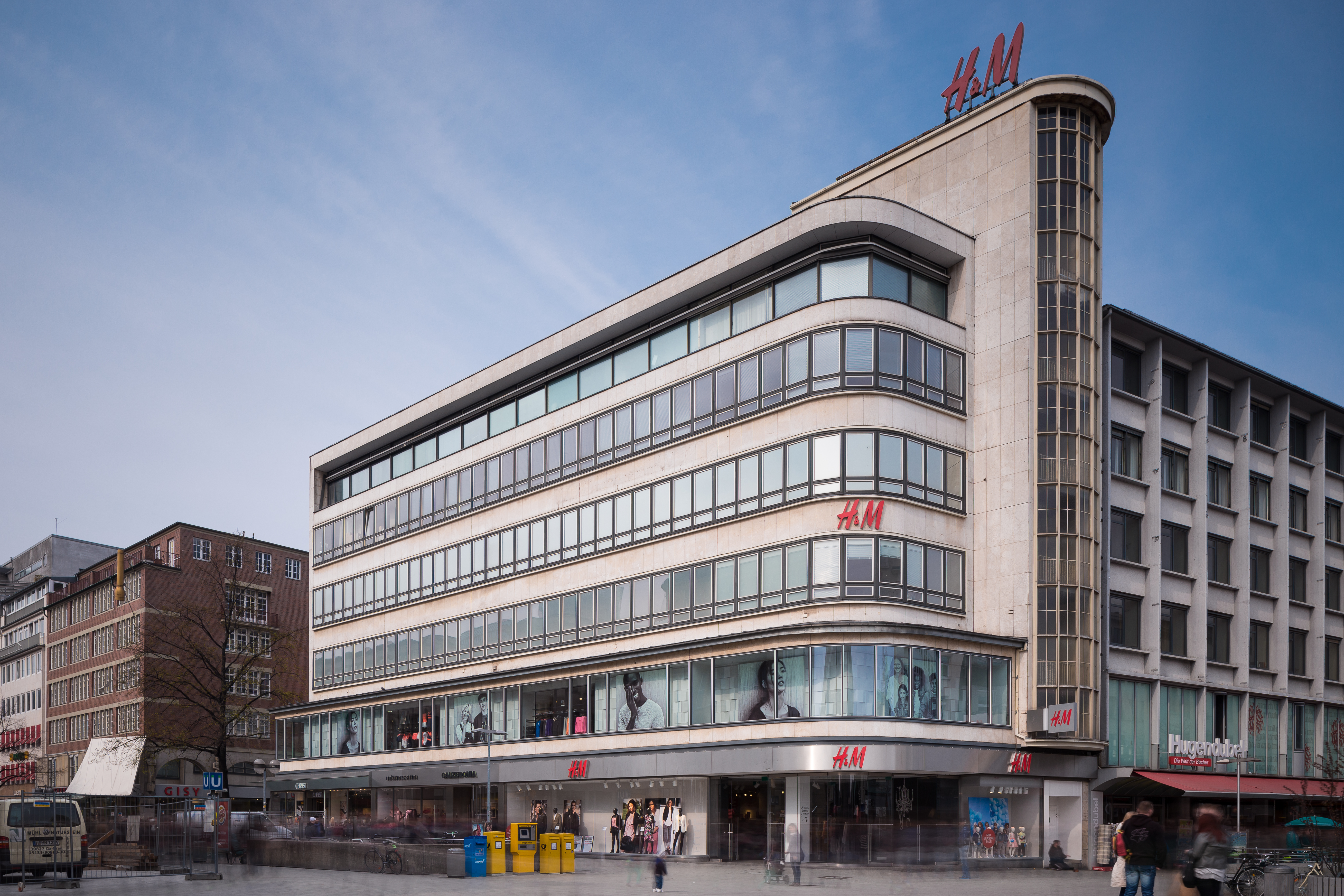 Department store "Magis" located at the central square ("Kröpcke") in Hanover, Germany. I gratefully acknowledge Jann Lippke for providing his camera.